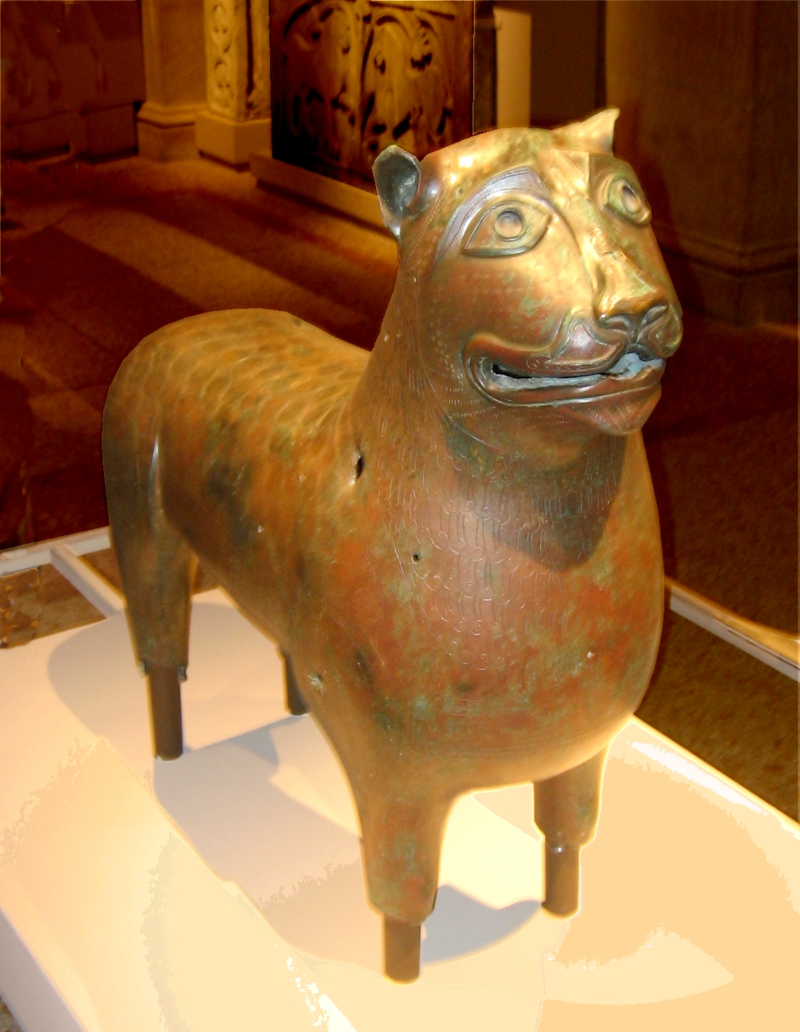 circa 1100 AD, based on style.